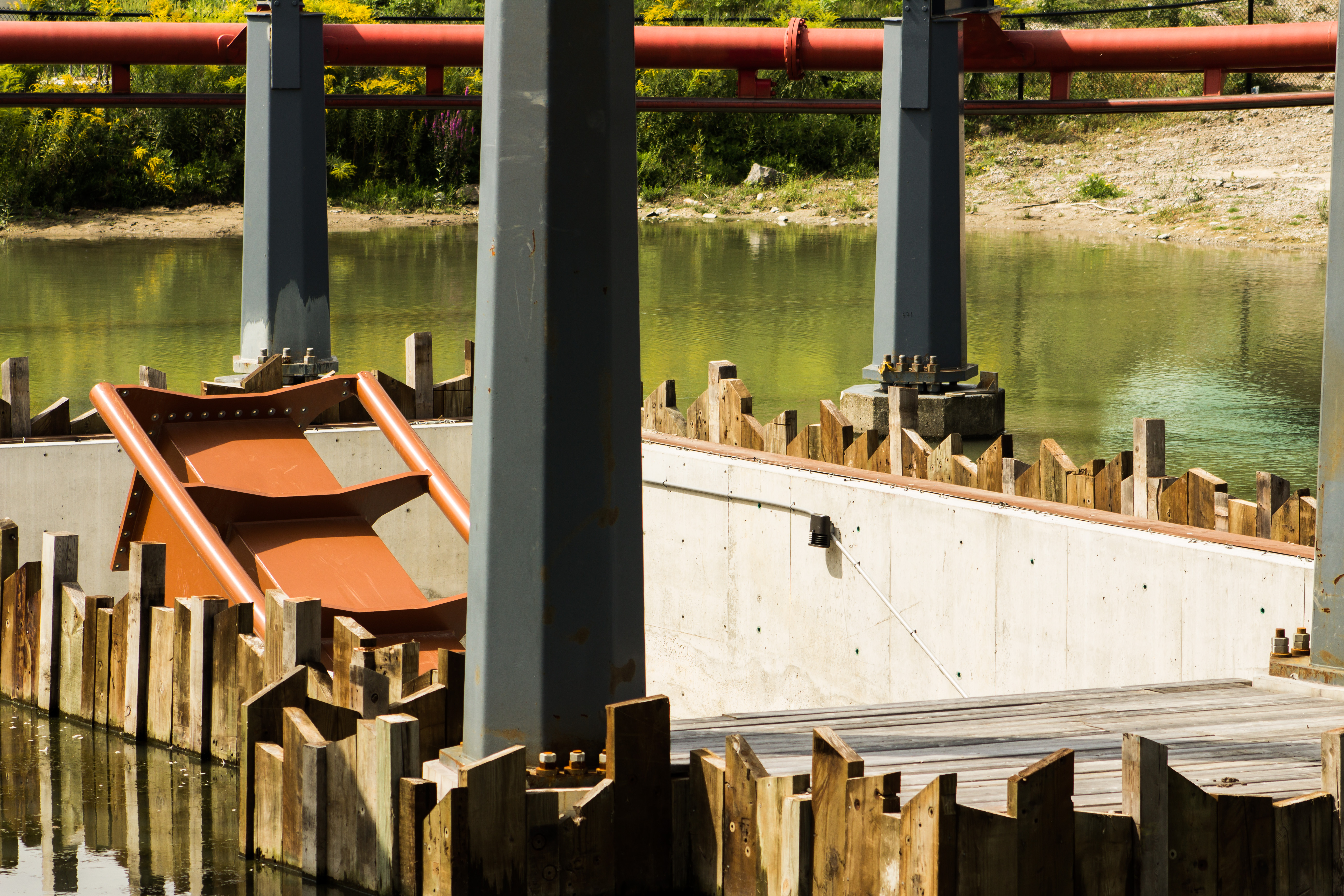 An opening leading into the planned (at the time of uploading) underwater tunnel of the Yukon Striker roller coaster in Canada's Wonderland.